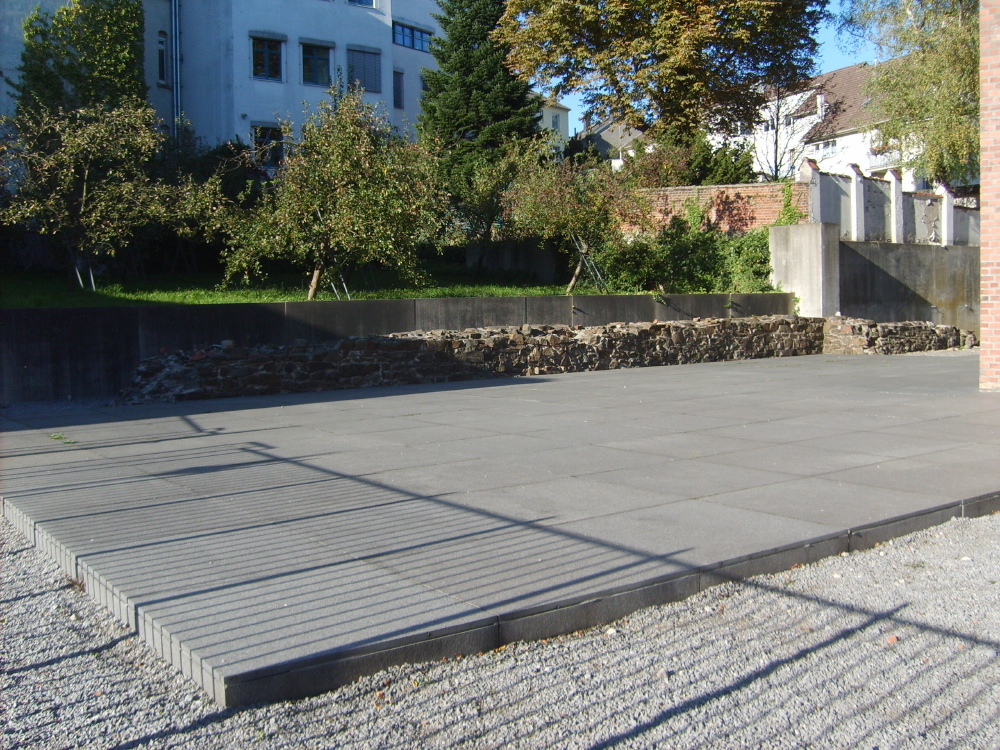 Wuppertal-Elberfeld, Old Synagogue, rests today